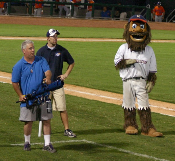 Evan Press, Dodgers, shoots the cannon with Strike